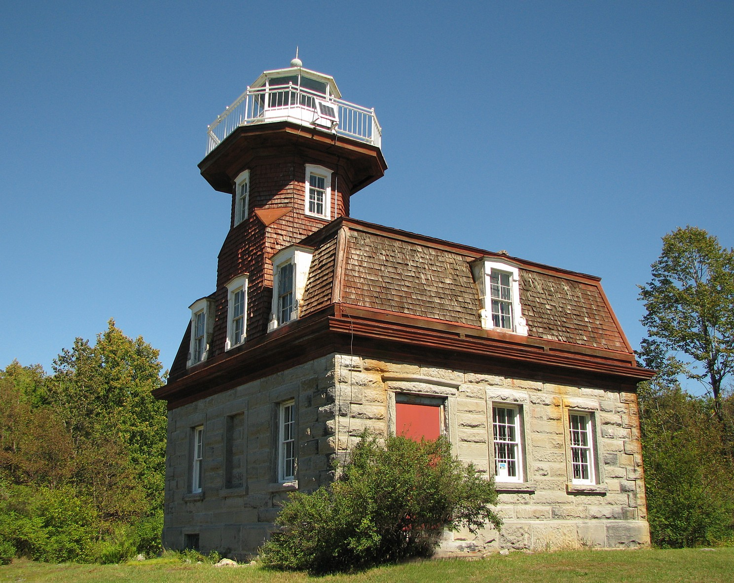 Taken by Marc Wanner, September 6, 2013 Taken by Marc Wanner, September 6, 2013